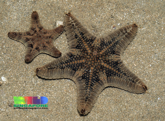 Biscuit sea star (Goniodiscaster scaber). More about this sea star on the wildfacts sheets on wildsingapore. For a high res version of this photo, please review the details on about using my photos. When making the request, please include this reference: 080720cjd7899